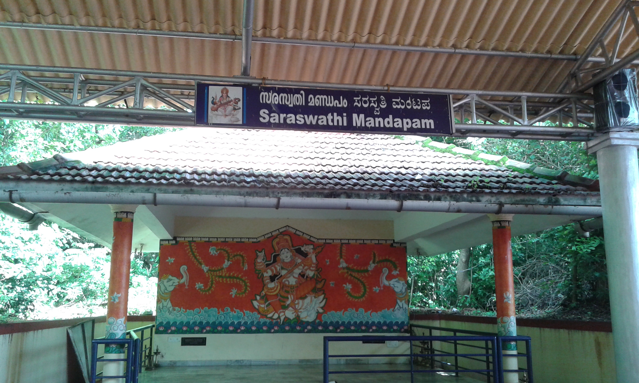 Saraswathi Mandapam in Madayikkavu